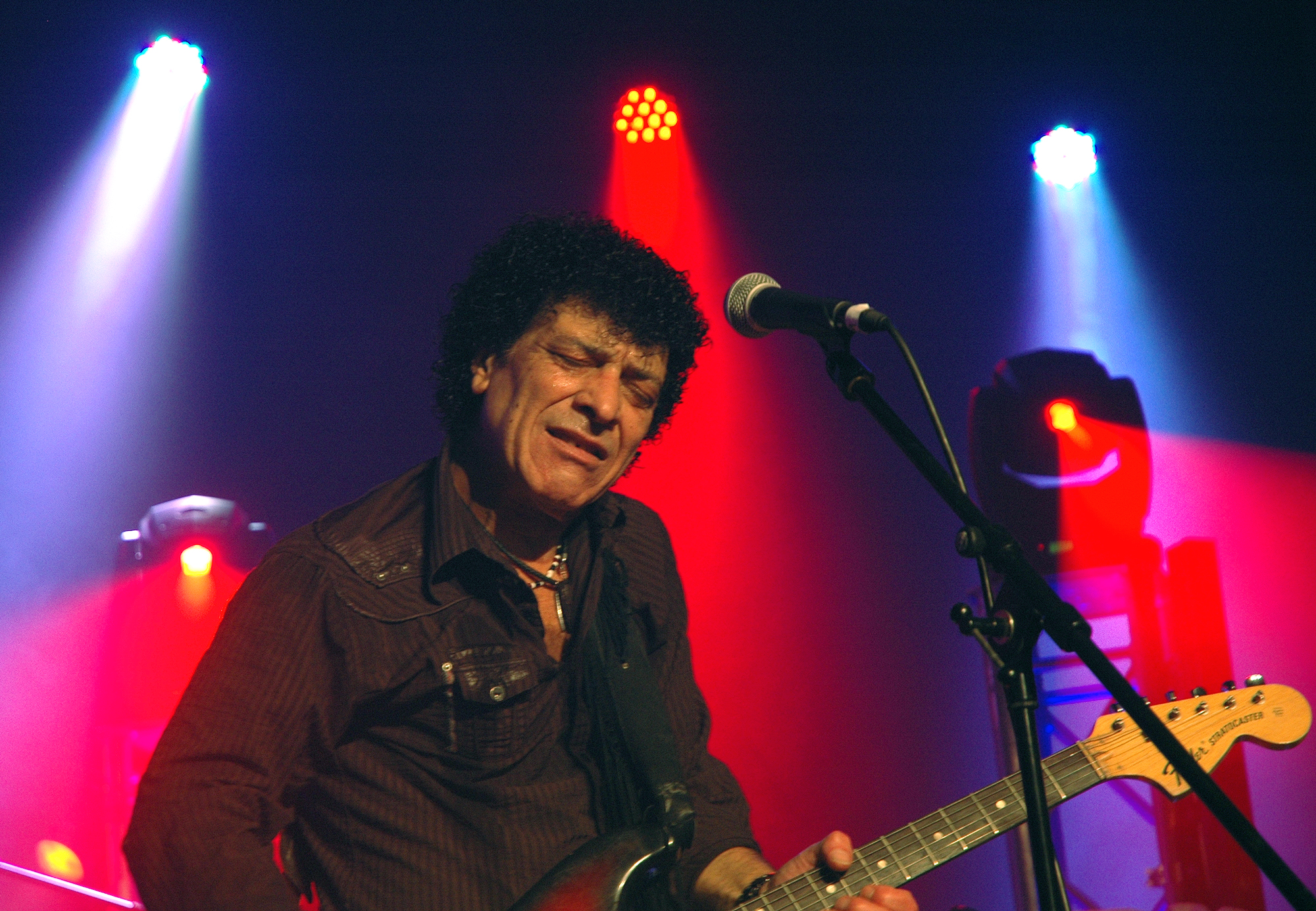 Ray Dorset live at Zürisee-Festival in Switzerland 2013, Erlenbach